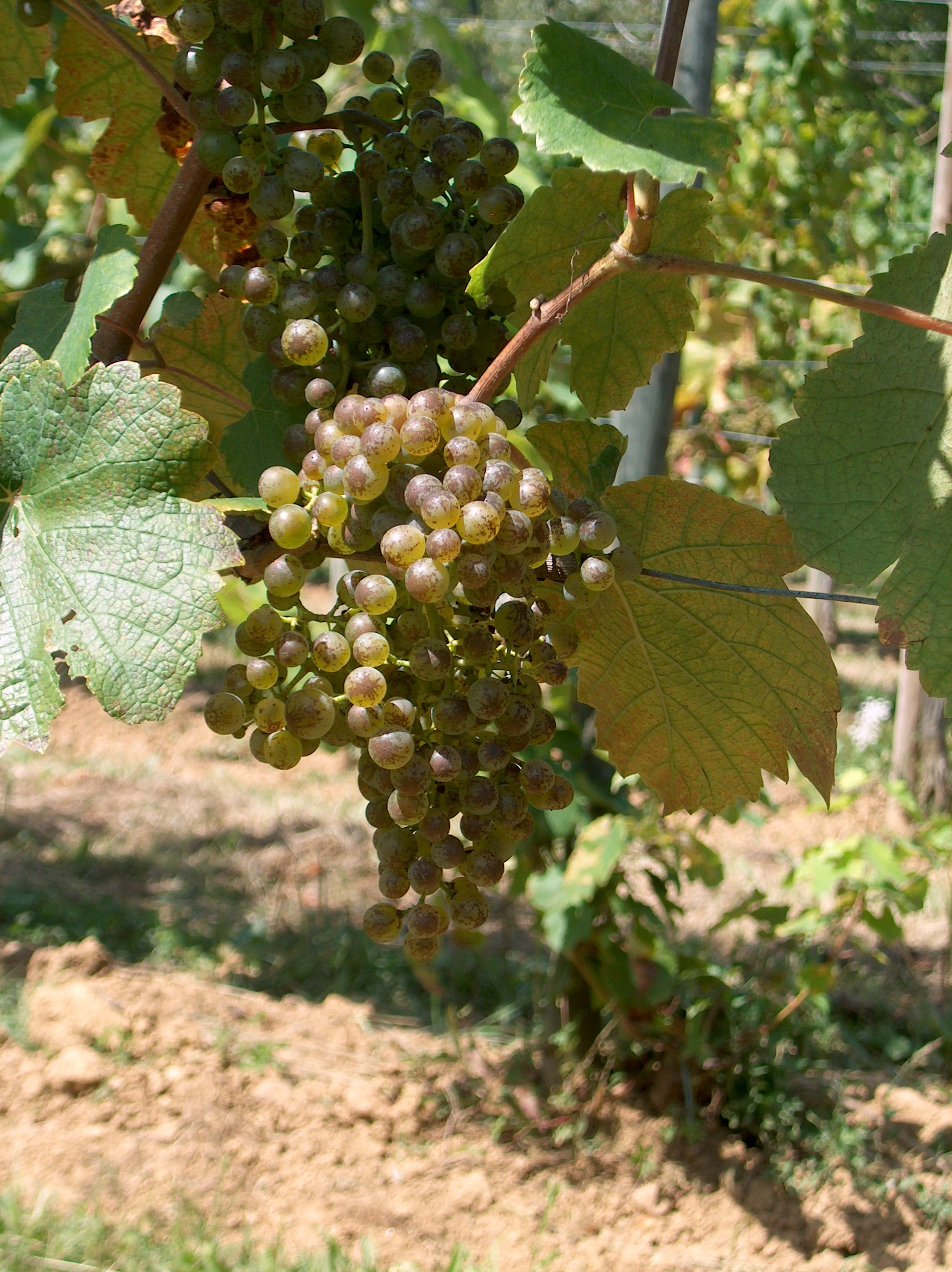 vineyards of jurançon. laroin. Domaine de Souch.